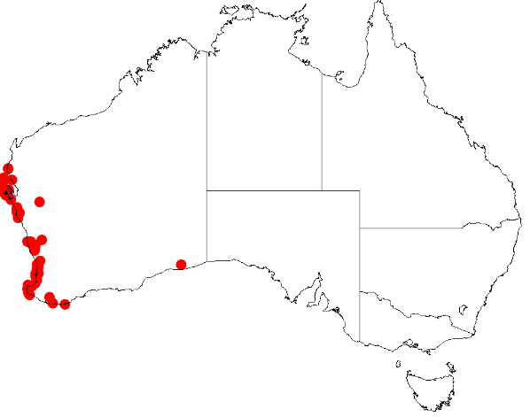 Scaevola anchusifolia Occurrence data downloaded from Australasian Virtual Herbarium on 12 May 2019